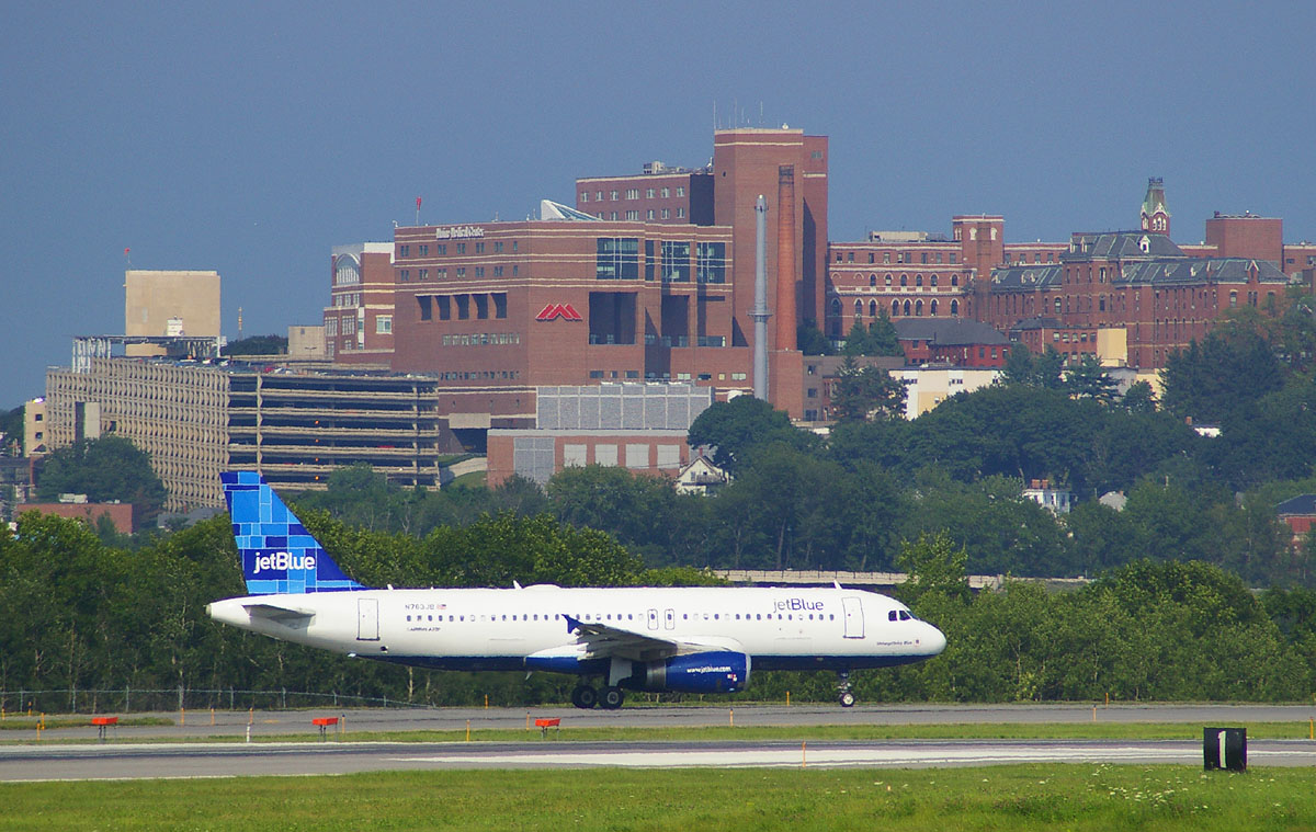 jetBlue "Unforgettably Blue" (Airbus A320) at Portland International Jetport, with Maine Medical Center visible in the background. Photo taken from public property.